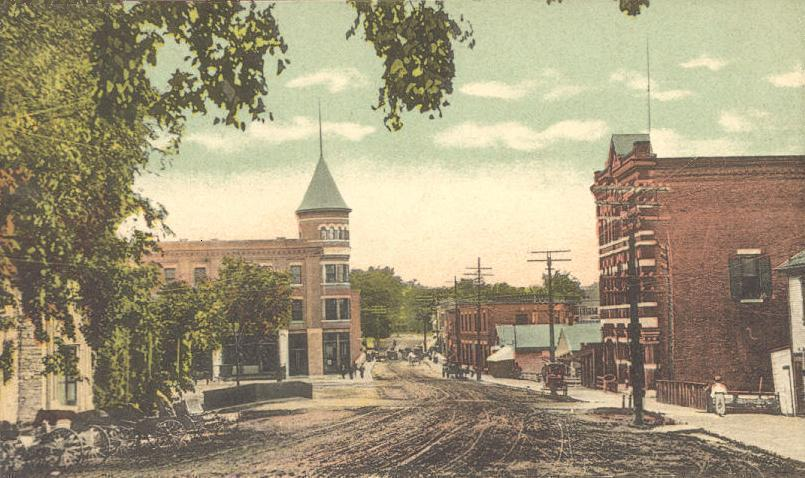 Main Street, Middlebury, Vermont; from a 1908 postcard published by W. H. Sheldon.